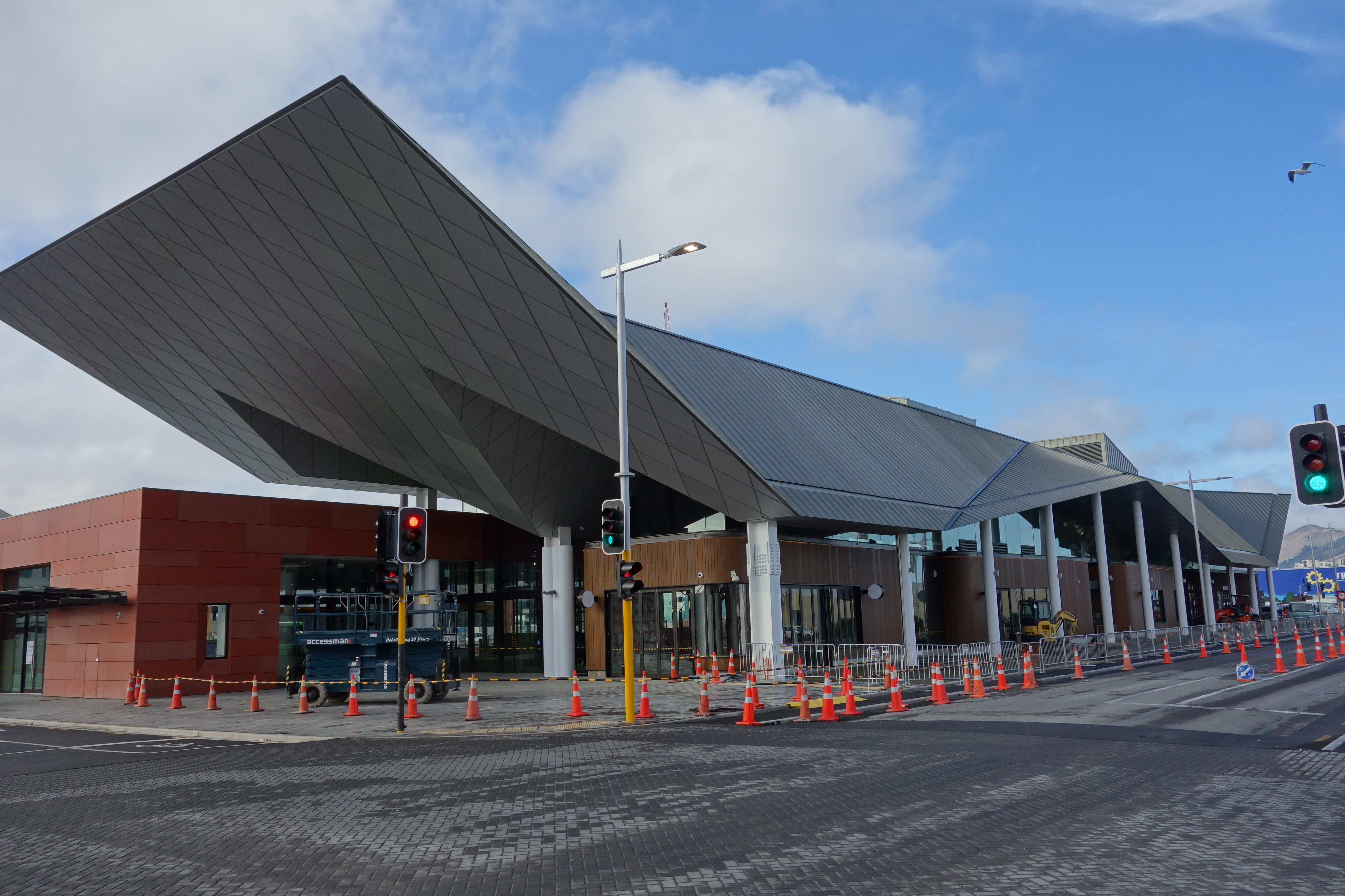 Christchurch's new Bus Exchange on 17 August 2015.